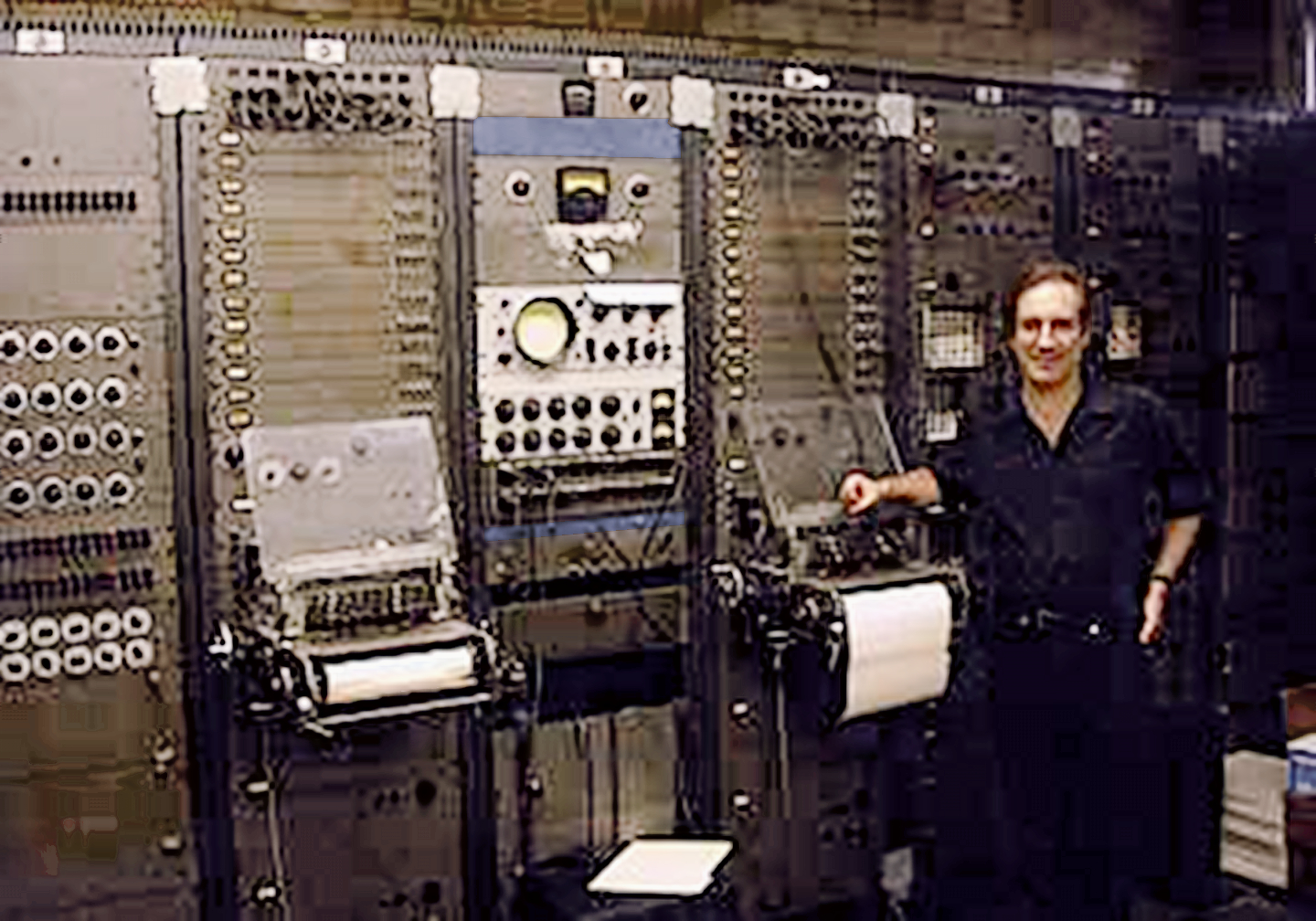 RCA Mark II Sound Synthesizer (designed by Herbert Belar and Harry Olson at RCA Victor) Note: The color of image was corrected based on other photographs of RCA Mark II : according to other photograph, original color of rack may be not the brown but the gray, and after a half century, due to stains and rusts, it seems to be dark olive green.